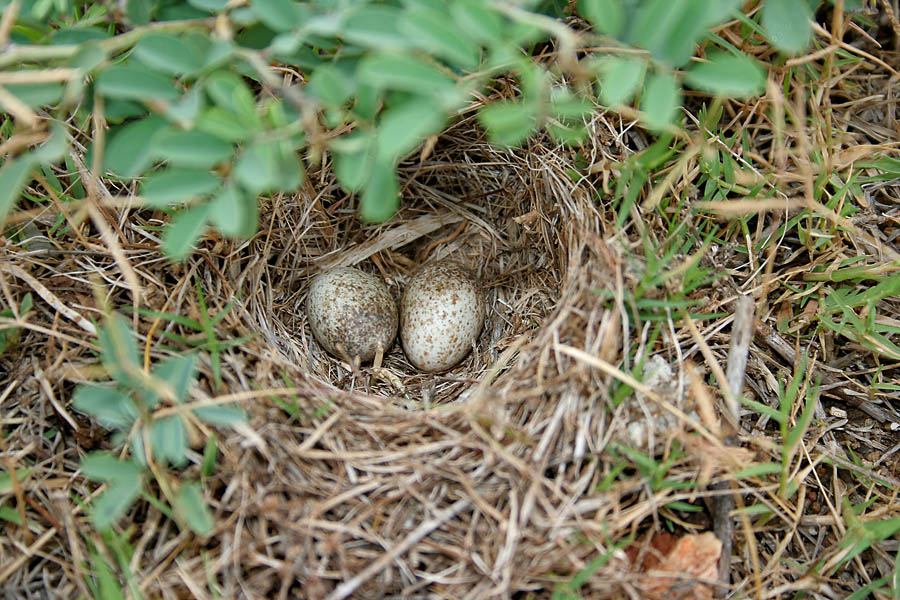 Ashy-crowned Sparrow Lark or Ashy-crowned Finch-lark Eremopterix grisea nest - Hindi: Diyora, Duri, Deoli, Dabak chiri, Jothauli, Pun: Saleti sir-chandol, Mirshikars: Gotowli, Ben: Math charai, Dhula chata, Guj: Bhon chakli, Rakhodishir bhonya chakli, Ta: Manam vanambadi, Te: Poti pichika, Piyada pichika, Ambali jorigadu, Mal: Karimpandi, Sinh: Gomaritta- in Hyderabad, India.